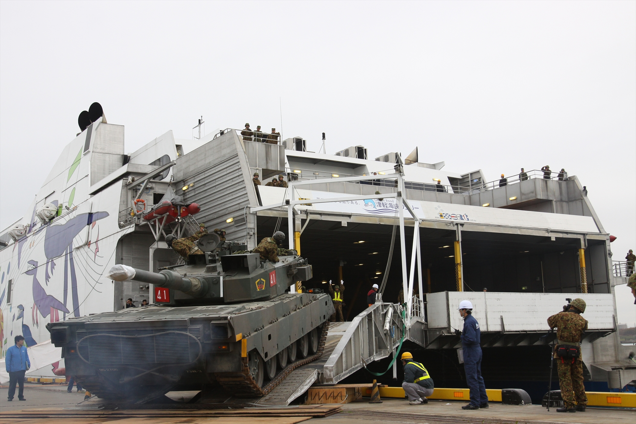 Title 7D南転出発01_R.jpg Album 装備 ９０式戦車（転地演習出発）